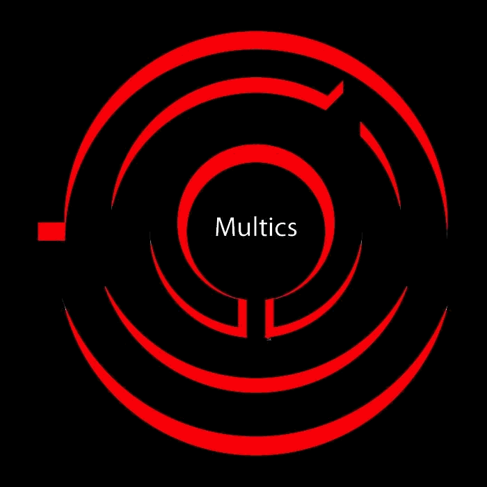 Logo of the MIT/GE/Bell/Honeywell Multics operating system